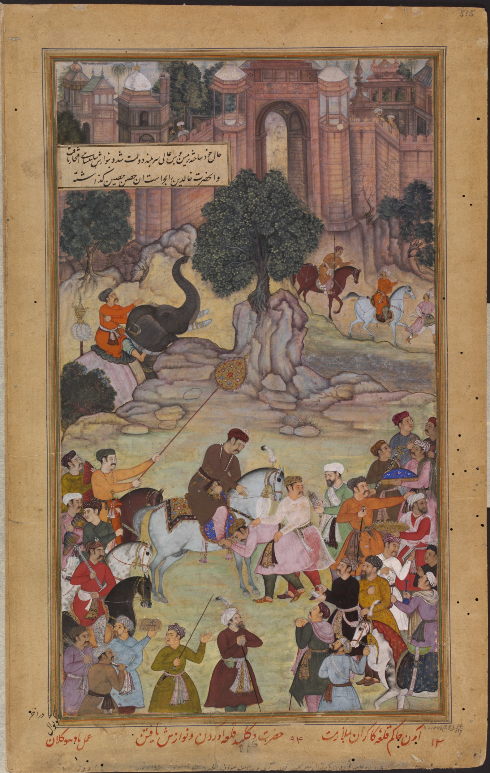 The governor of Gagraun fort surrenders the keys to Akbar in 1561, by Madhav the Elder